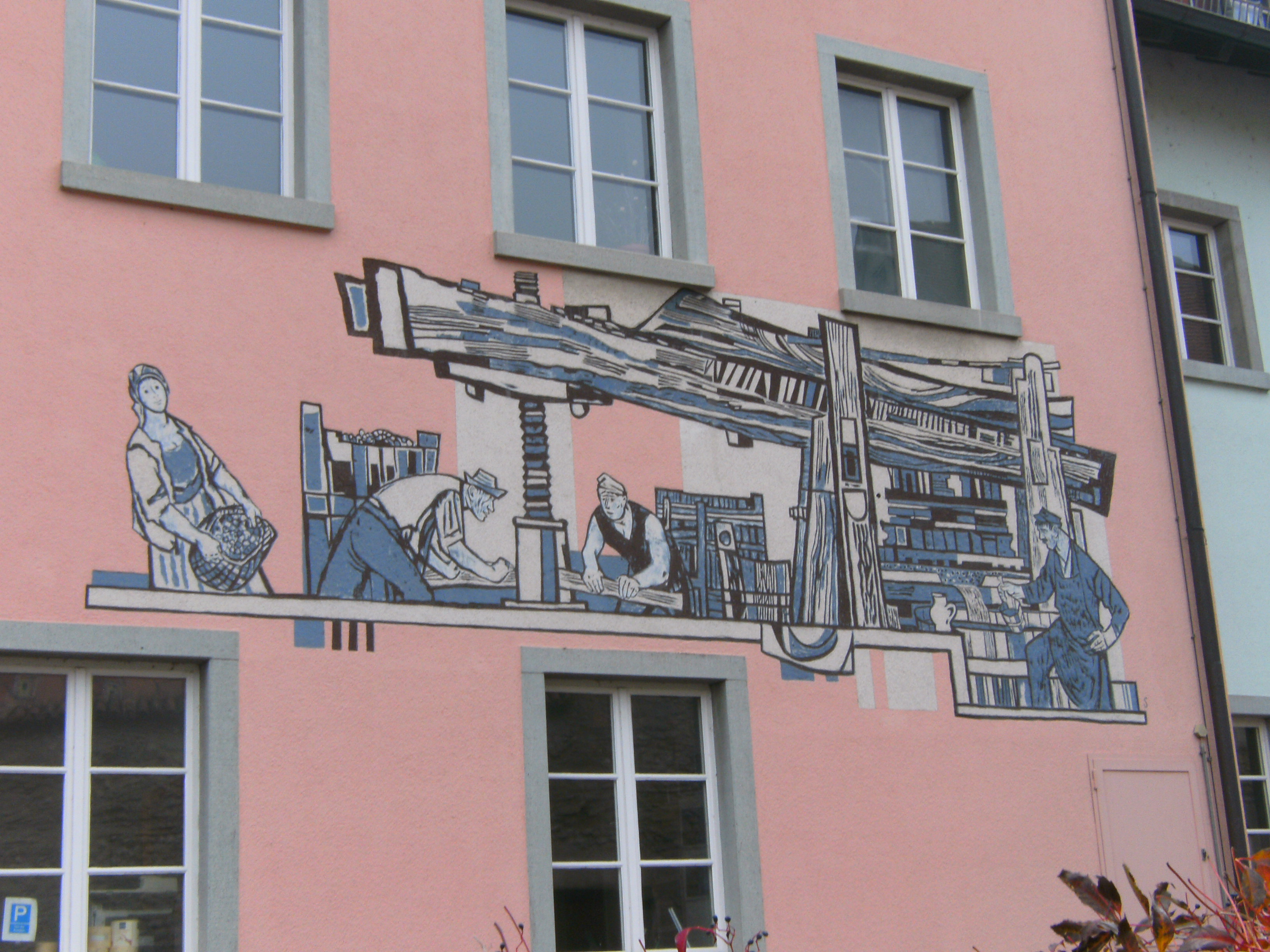 Konstanz, Germany, Brückengasse 16: Building Spitalkellerei Konstanz (wine cellars). In detail: Sgraffito work on a winepress by Hans Sauerbruch